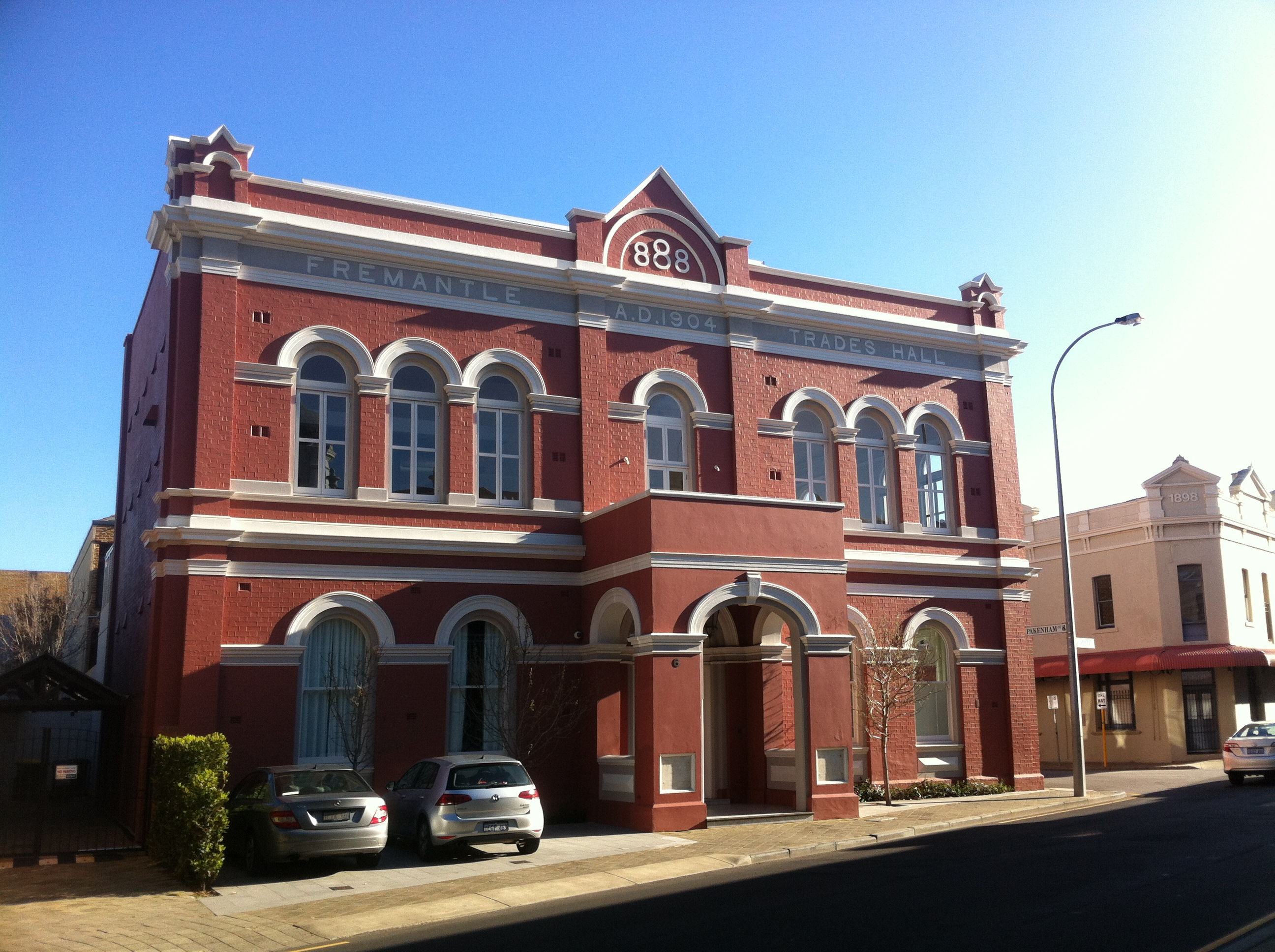 Fremantle Trades Hall front view